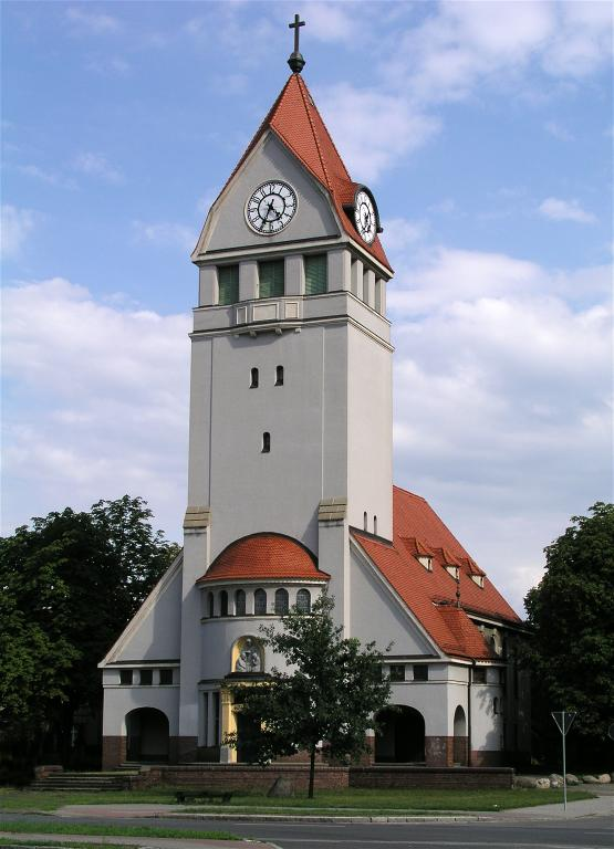 Senftenberg-Brieske, Marga (Brandenburg, Germany), church, photo 2003